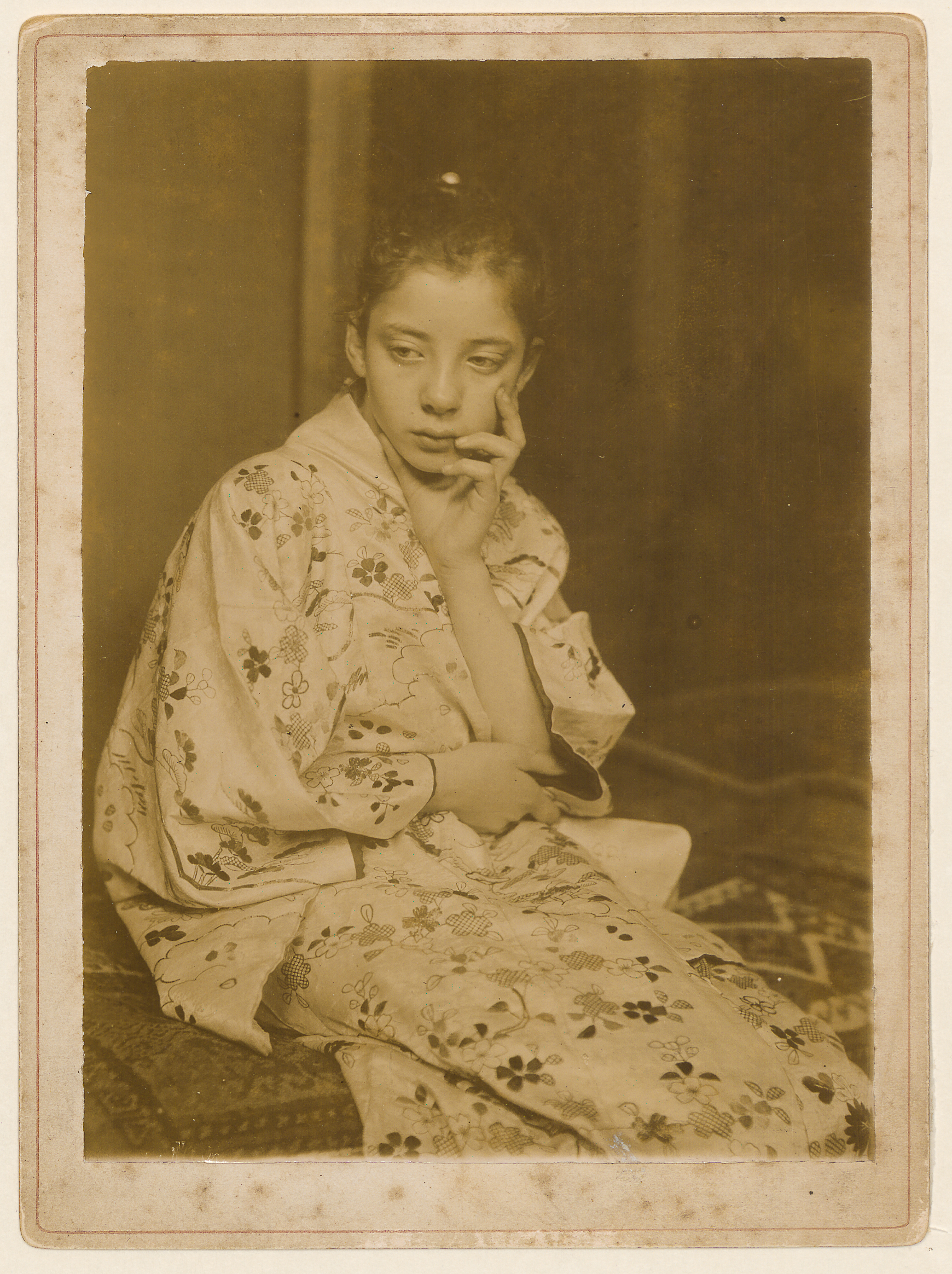 Geesje Kwak This image is a naturally sepia toned archive quality scan of an original print.